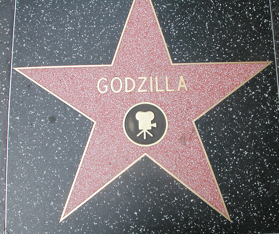 Godzilla's star on the Hollywood Walk of Fame, Los Angeles (California) Licensing Categoria:Immagini di Godzilla